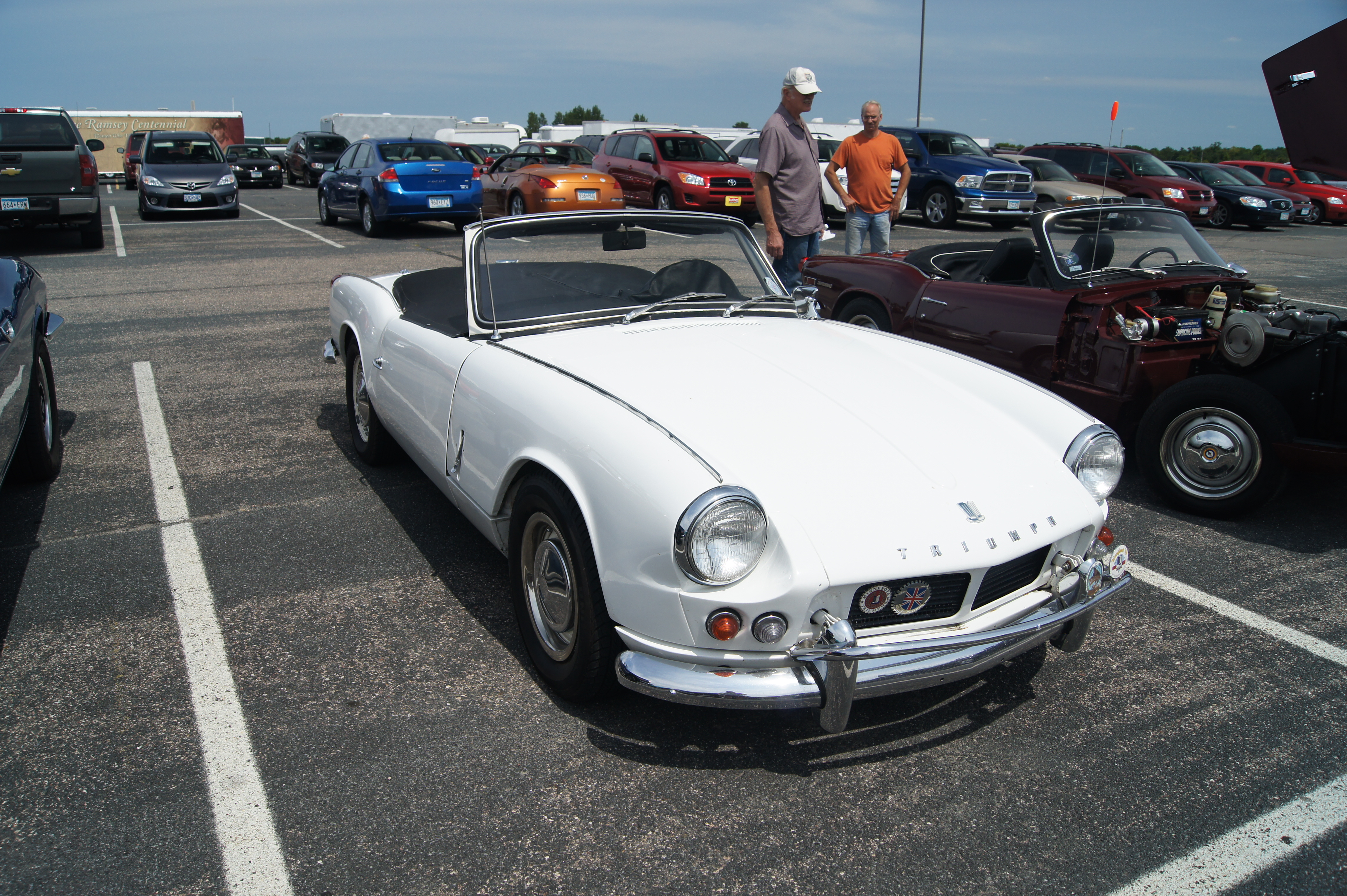 1963 Triumph Spitfire26th Annual New London to New Brighton Antique Car Run August 11, 2012.